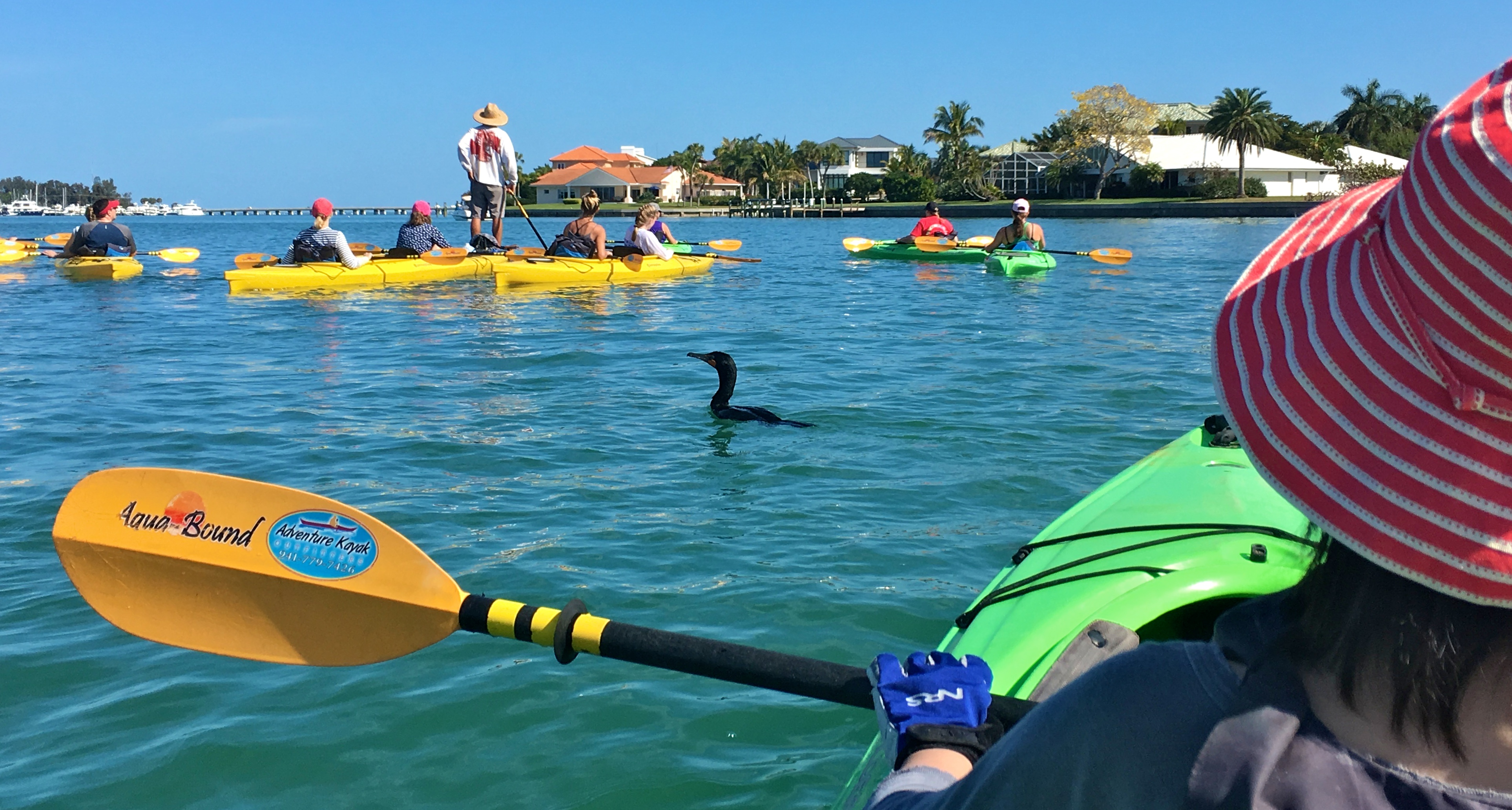 An eco-tour of the waters surrounding Lido Key on kayaks, with the tour guide standing and spotting dolphins and manatees that live in the Sarasota Bay